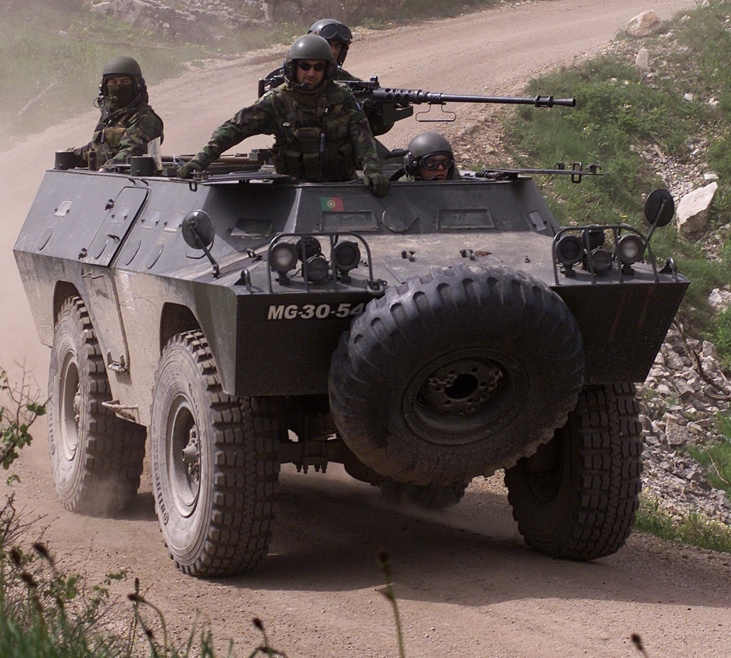 Cropped version of a previous Commons image. Bravia Chaimite armoured car. Cropped to produce a more relevant image for the specific vehicle depicted. Limited contextual relevance to original work.